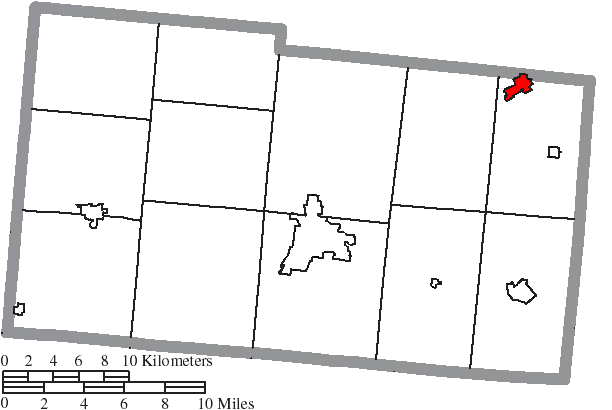 Map of the municipal and township boundaries of Champaign County, Ohio, United States, as of the 2000 census, with the location of the village of North Lewisburg highlighted. Township borders are shown only in unincorporated areas in order to differentiate incorporated and unincorporated areas more clearly.